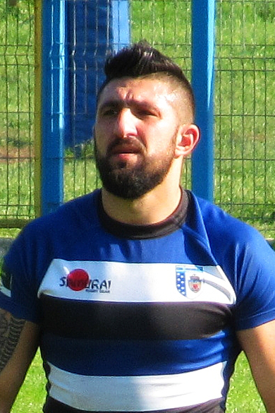 Romanian rugby union player Florin Vlaicu during a match between his team, CSM București, and rivals CSM Baia Mare.